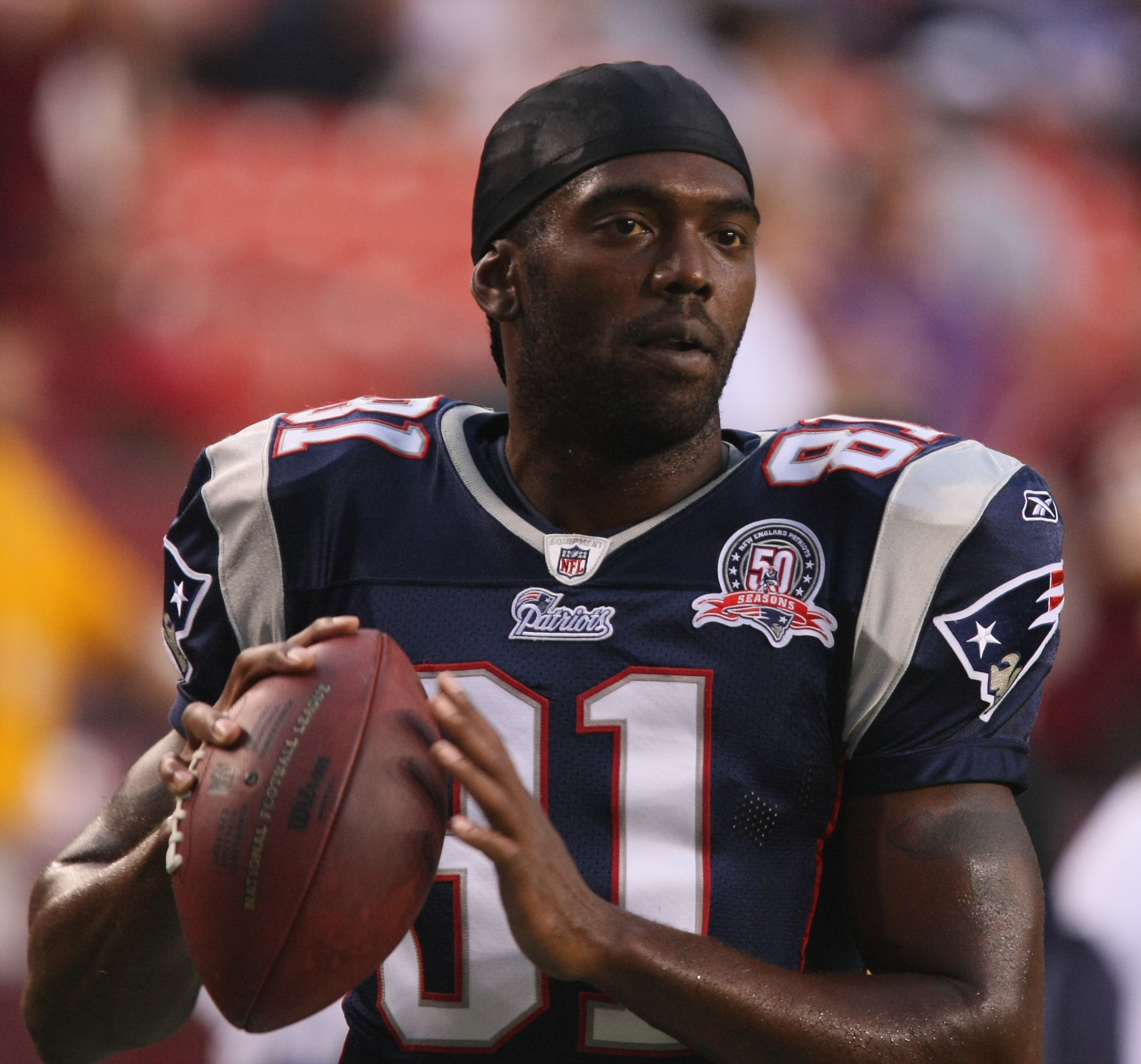 Randy Moss #84 of the Minnesota Vikings